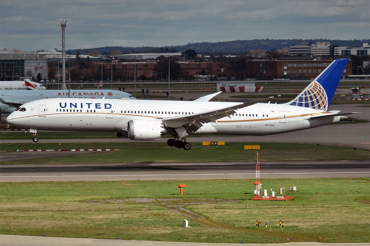 United Airlines, N27964, Boeing 787-9 Dreamliner